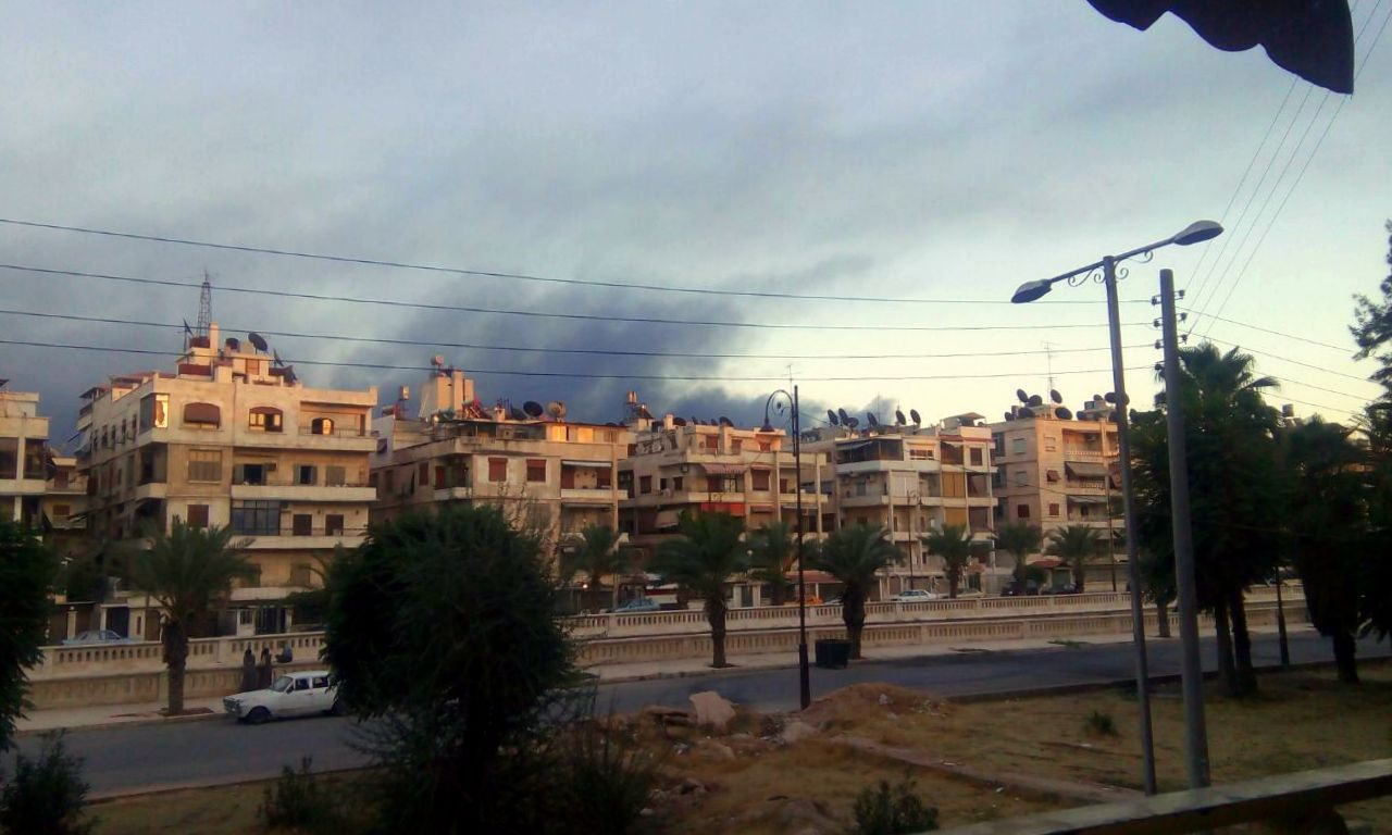 Aleppo under attack by terrorists, 9 August 2016